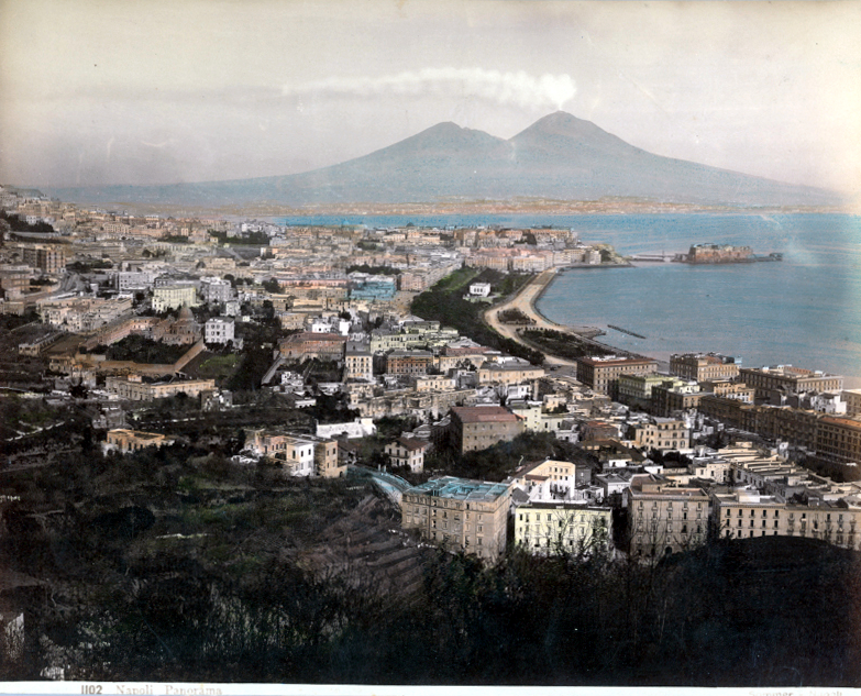 Giorgio Sommer (1834-1914), "Naples - Panorama". Hand-tinted photograph. Catalogue # 1102. The image shows Chiaia, a district of Naples, from the hill of Posillipo. 1102bis - Naples. 1102 - Naples (colorized).